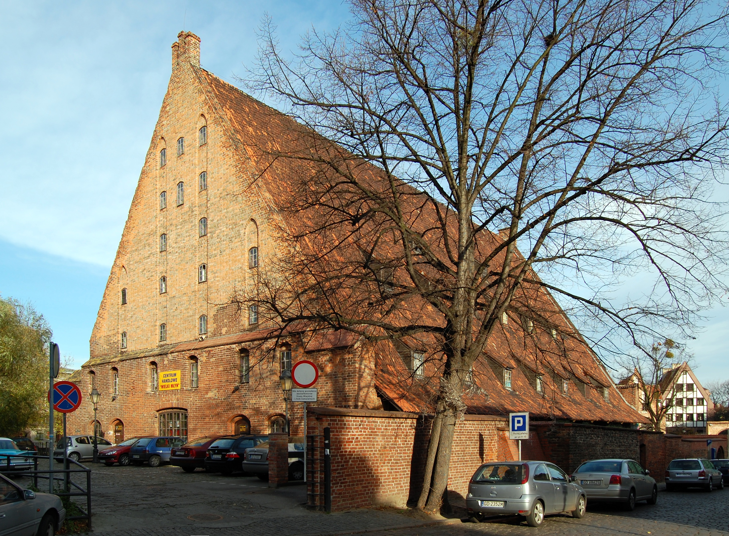 Great Mill in Gdańsk, Poland.